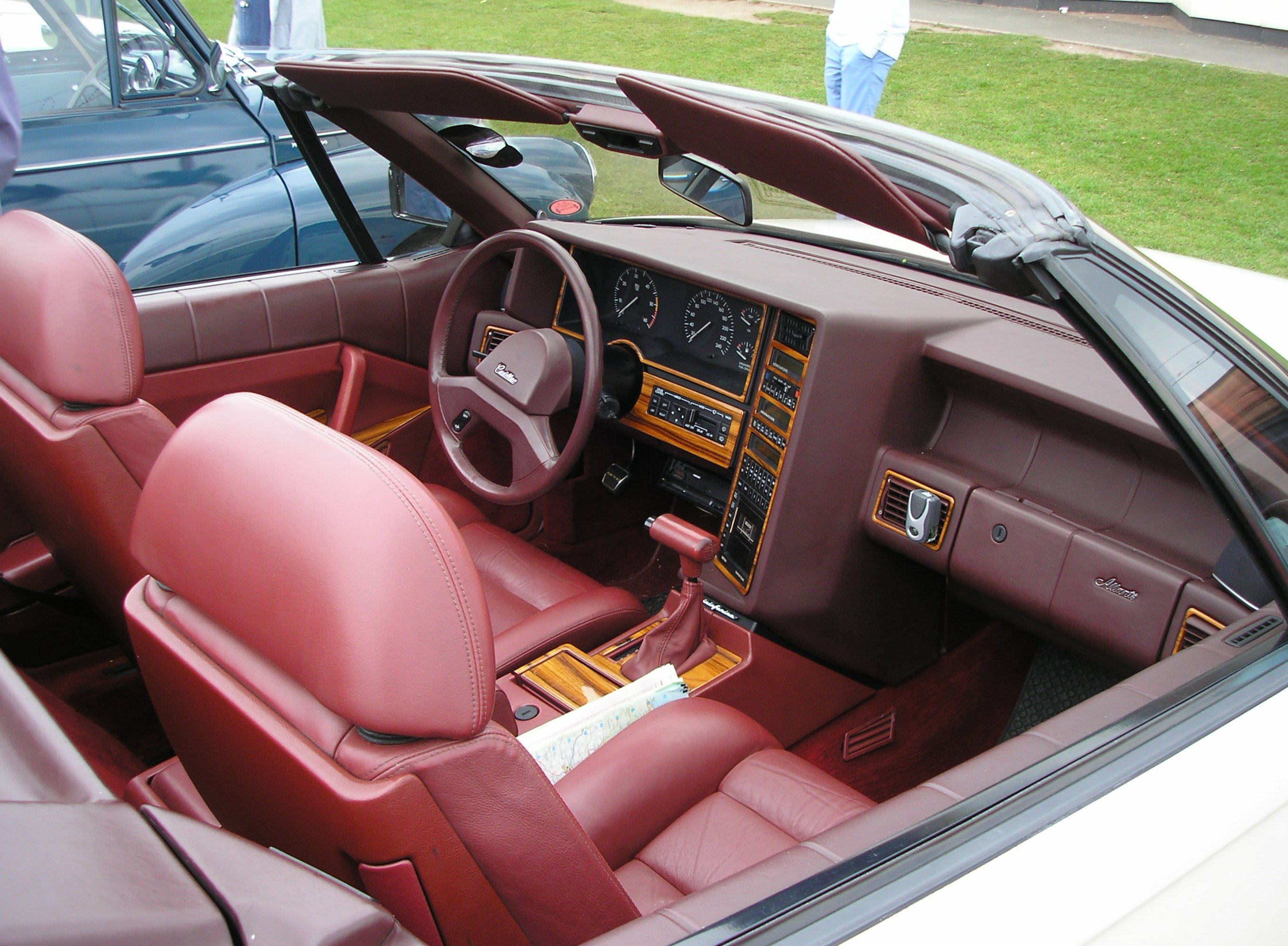 A car rally to celebrate the festival of St. George, on the Den at Teignmouth. Sunday 21st April 2013. Camera: Olympus FE-120 6.0 Digital.